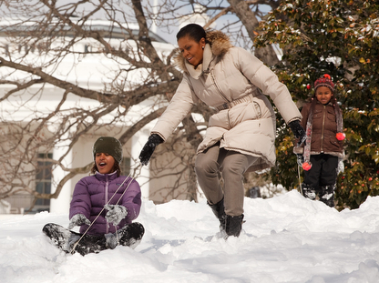 United States First Lady Michelle Obama with daughters Malia and Sasha sled in the snow on the South Lawn of the White House on 3 February 2009. White House photographer Pete Souza comments: "Washington had its first big snowstorm and I knew the girls were home from school. I suspected the girls might try to sled or make a snowman, so I asked the Usher’s Office to call me if the girls headed outside. I got there just in time to catch the First Lady helping the girls sled down a hill on the South Lawn. This picture now hangs on the wall of the President’s study."